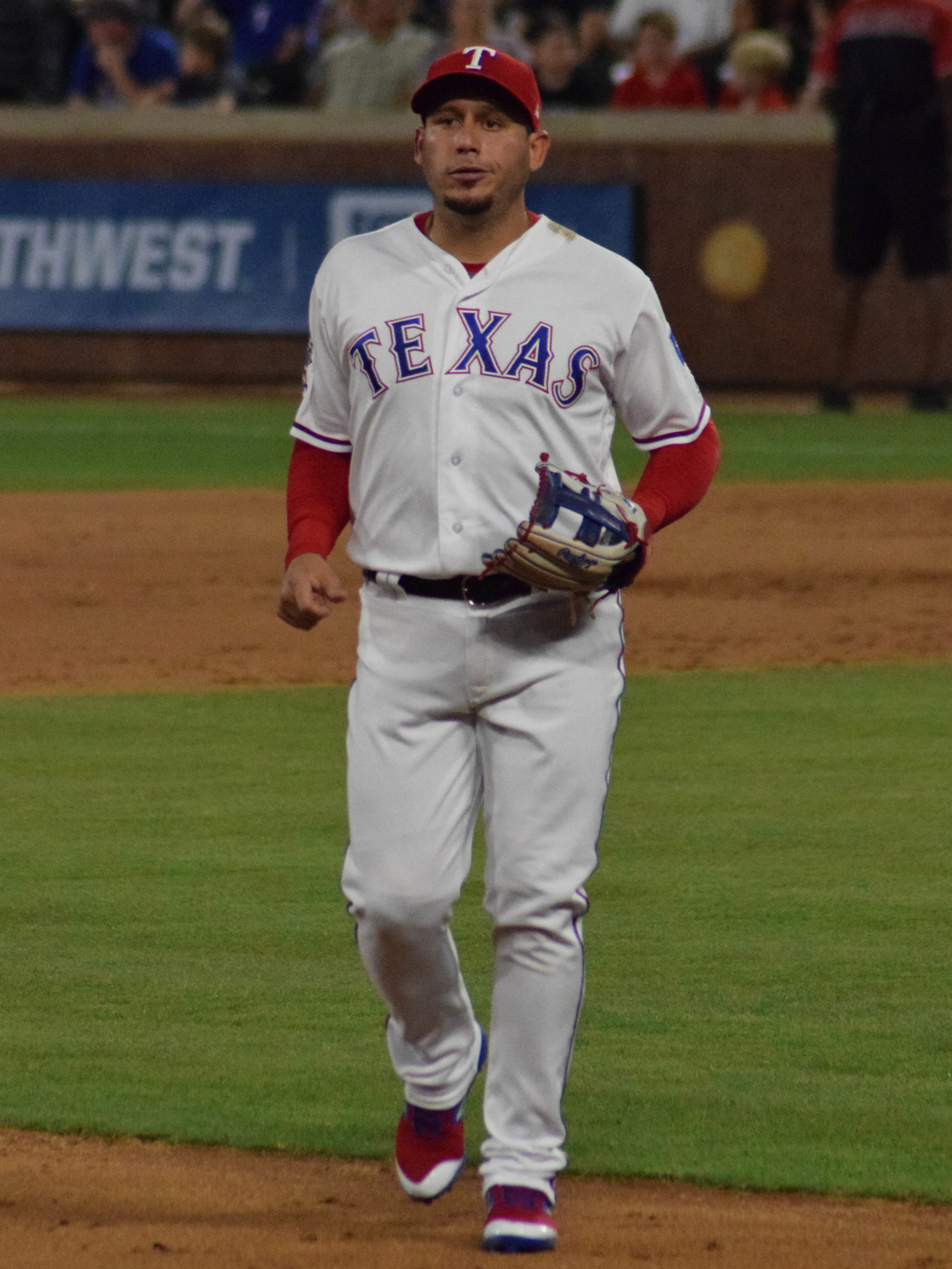 Asdrubal Cabrera with the Texas Rangers during a 2019 game at Globe Life Park in Arlington